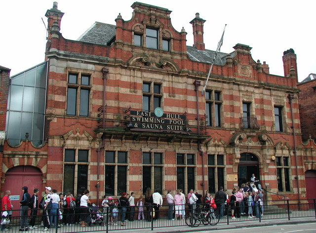 East Hull Baths. Families queue outside the swimming baths on Holderness Road, Hull in the early part of the school summer holidays.